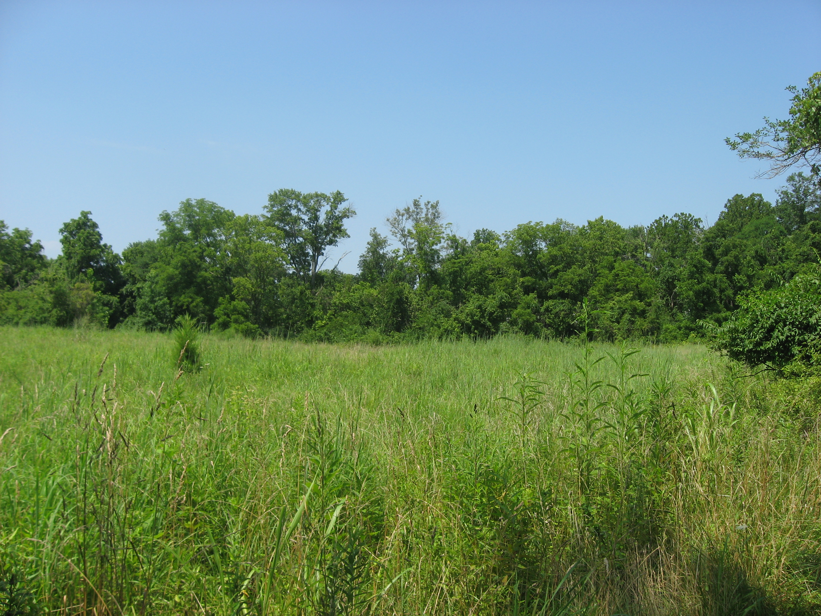 Fields at the Gatch Site, an archaeological site along Gatch Avenue in Milford, Ohio, United States. During the Woodland period, it was the site of a Native American village. Today, it is listed on the National Register of Historic Places.